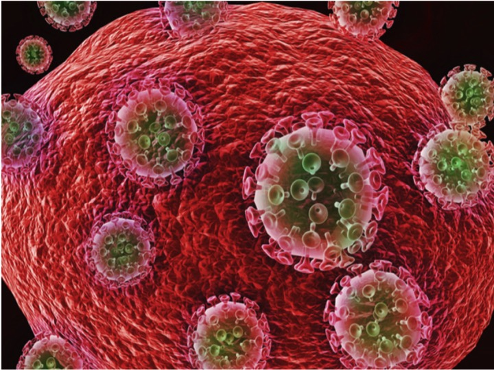 HIV virus being released from the surface of an infected cell